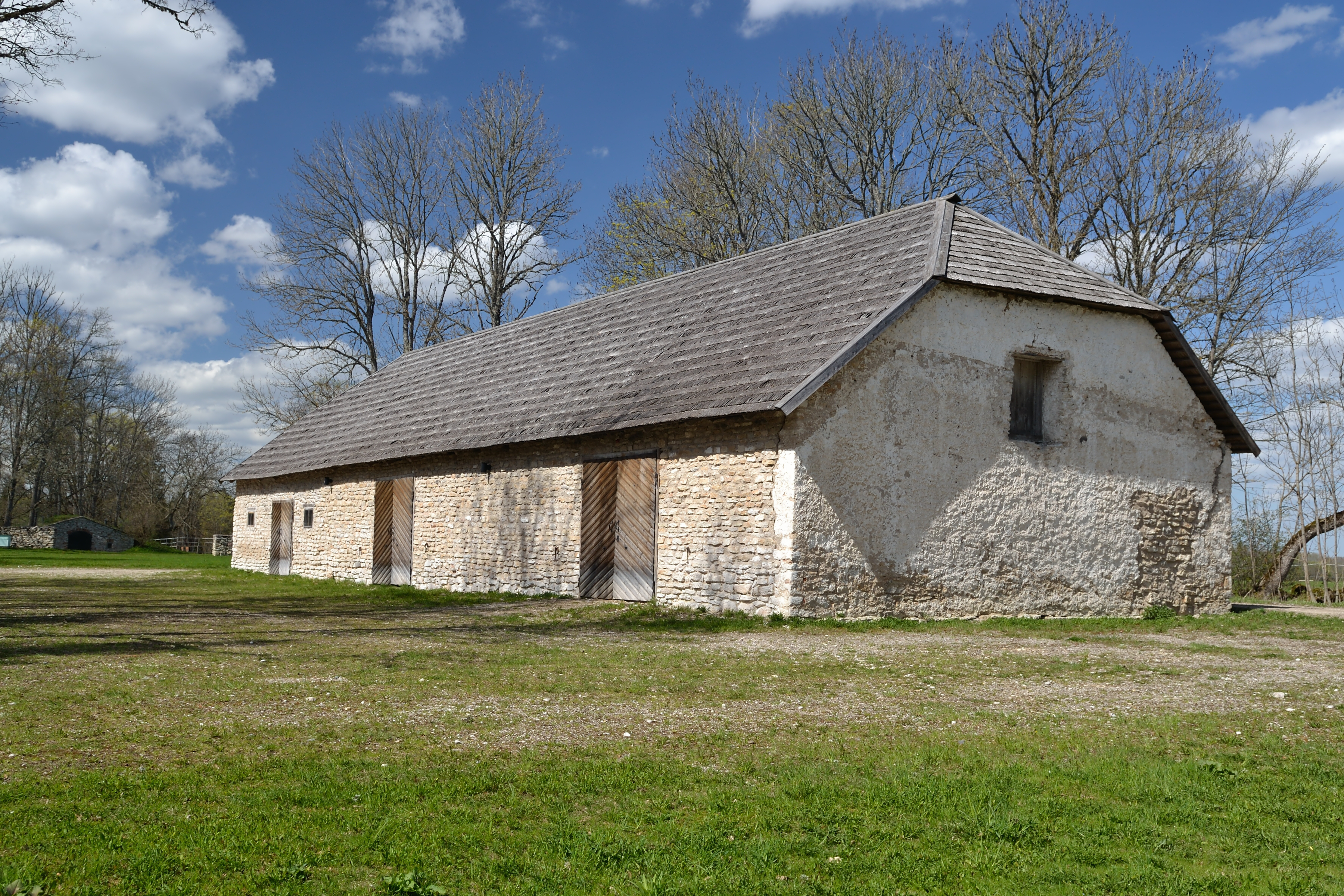 Koordi manor granary